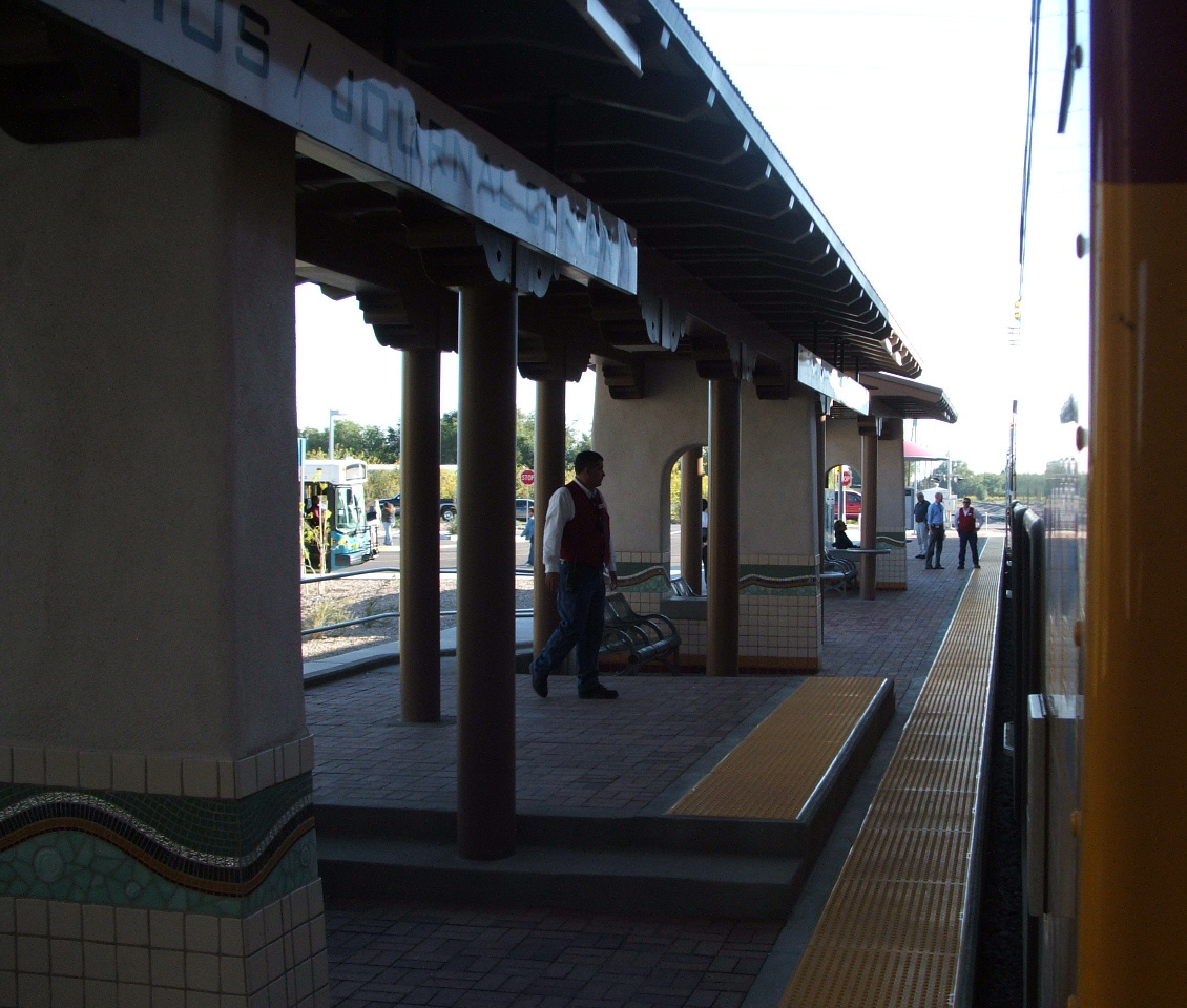 The Los Ranchos/Journal Center station on the New Mexico Rail Runner commuter train line.